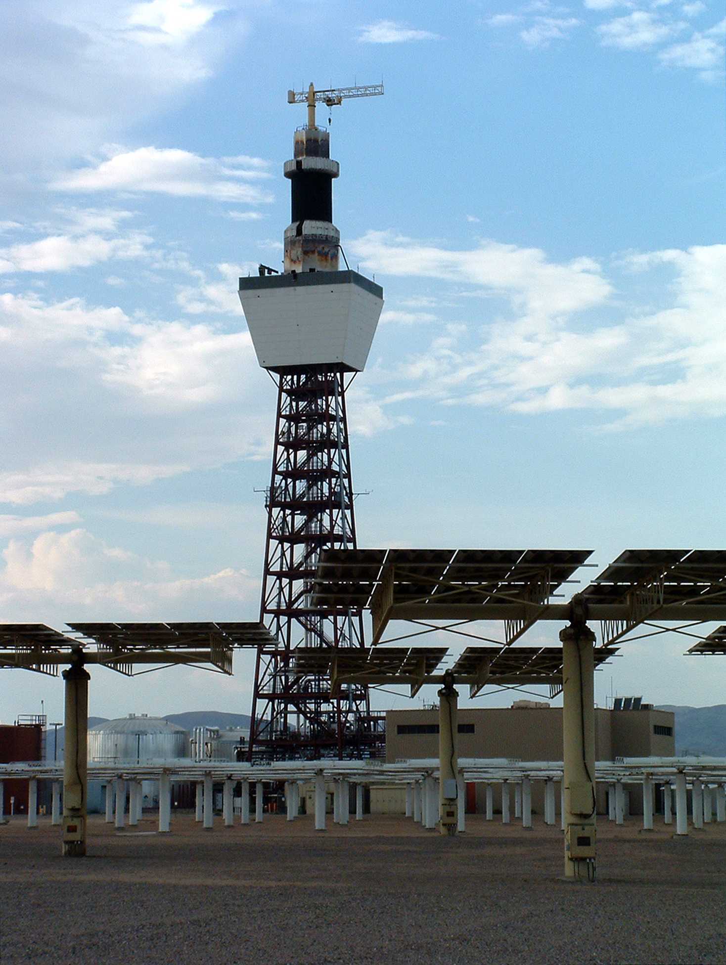 Solar Two in Daggett, California. It was a 10-MW solar thermal electric power plant. Heliostats followed the sun and directed its light to the receiver at the top of the tower